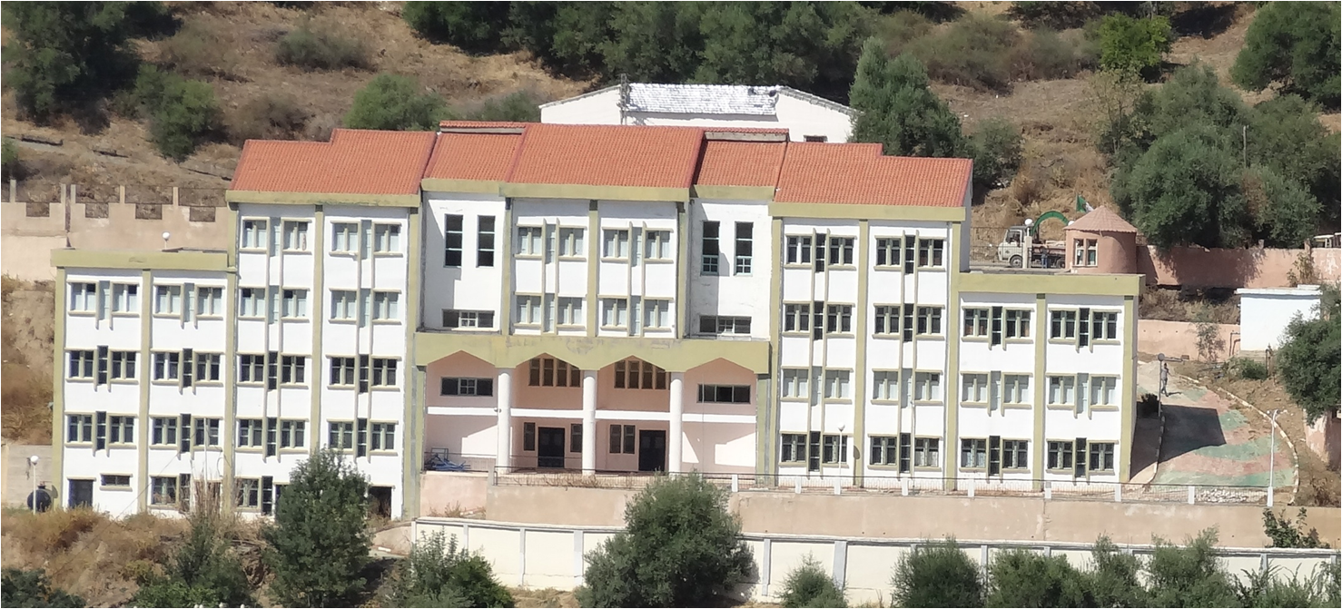 Bounouh second middle school